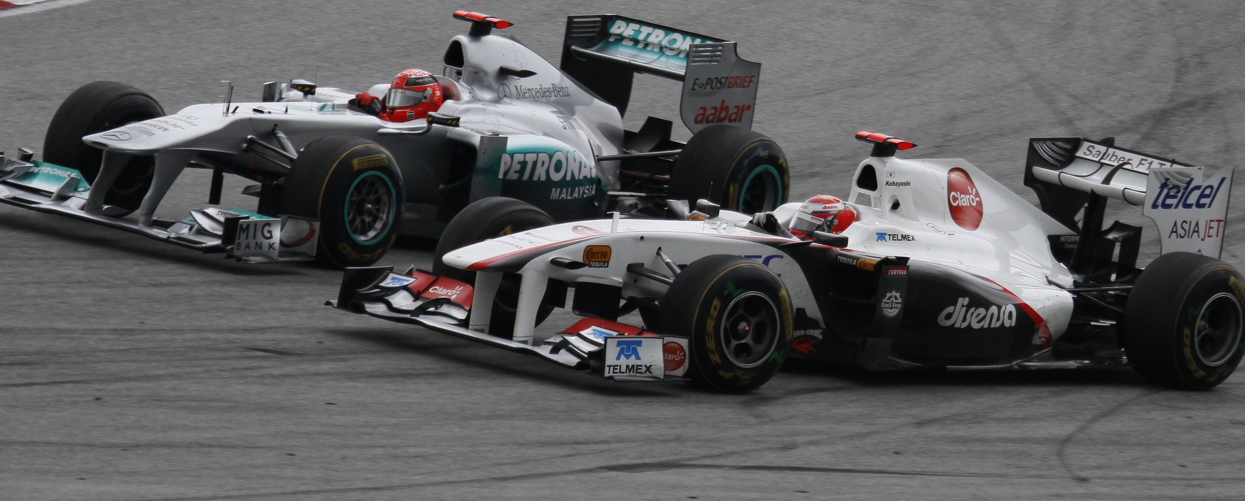 Formula One 2011 Rd.2 Malaysian GP: Kamui Kobayashi (Sauber) overtaking Michael Schumacher (Mercedes) on the race.